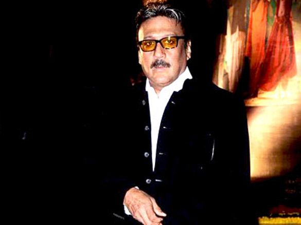 Jackie Shroff at Bal Gandharva premier in Mumbai